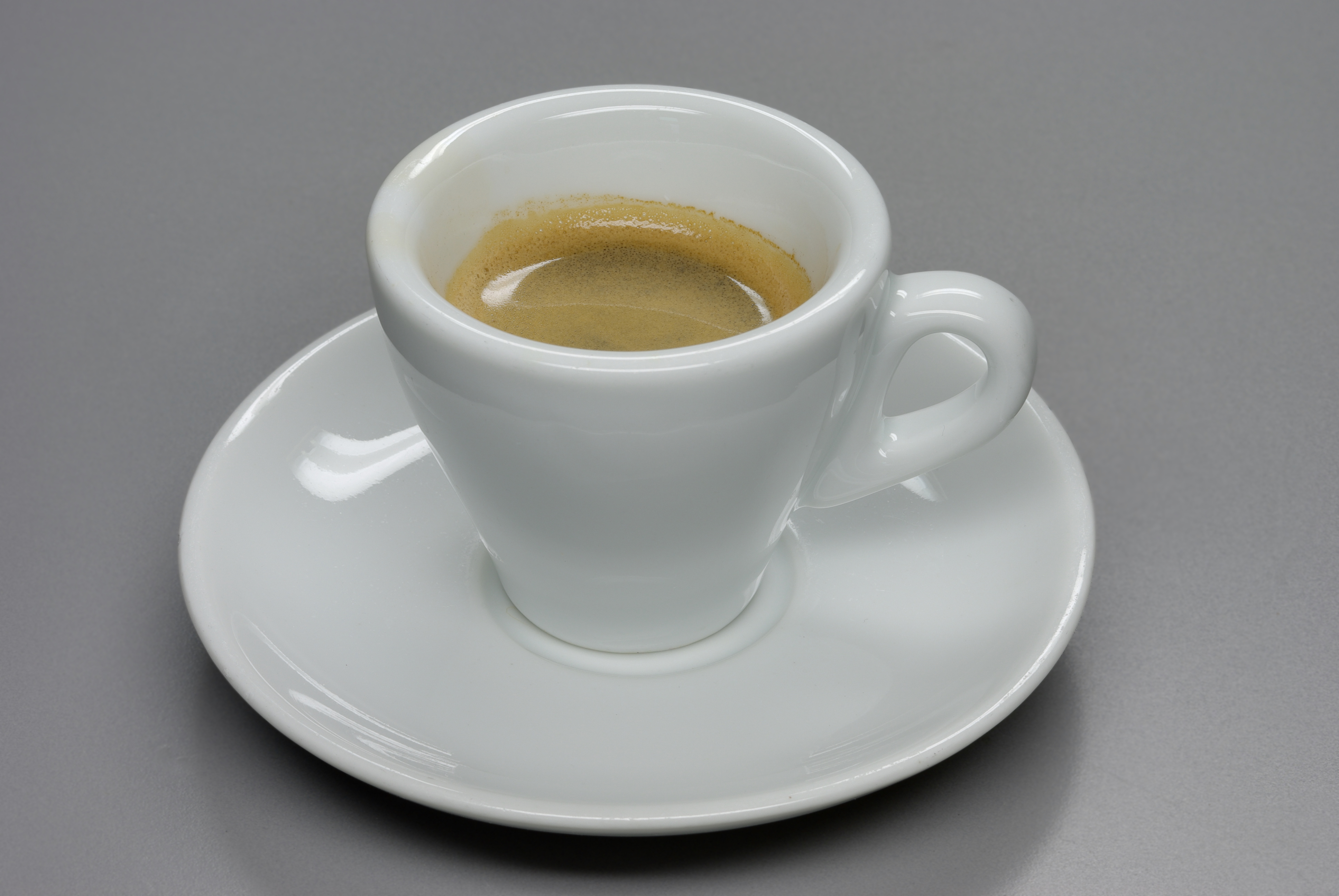 A cup of espresso